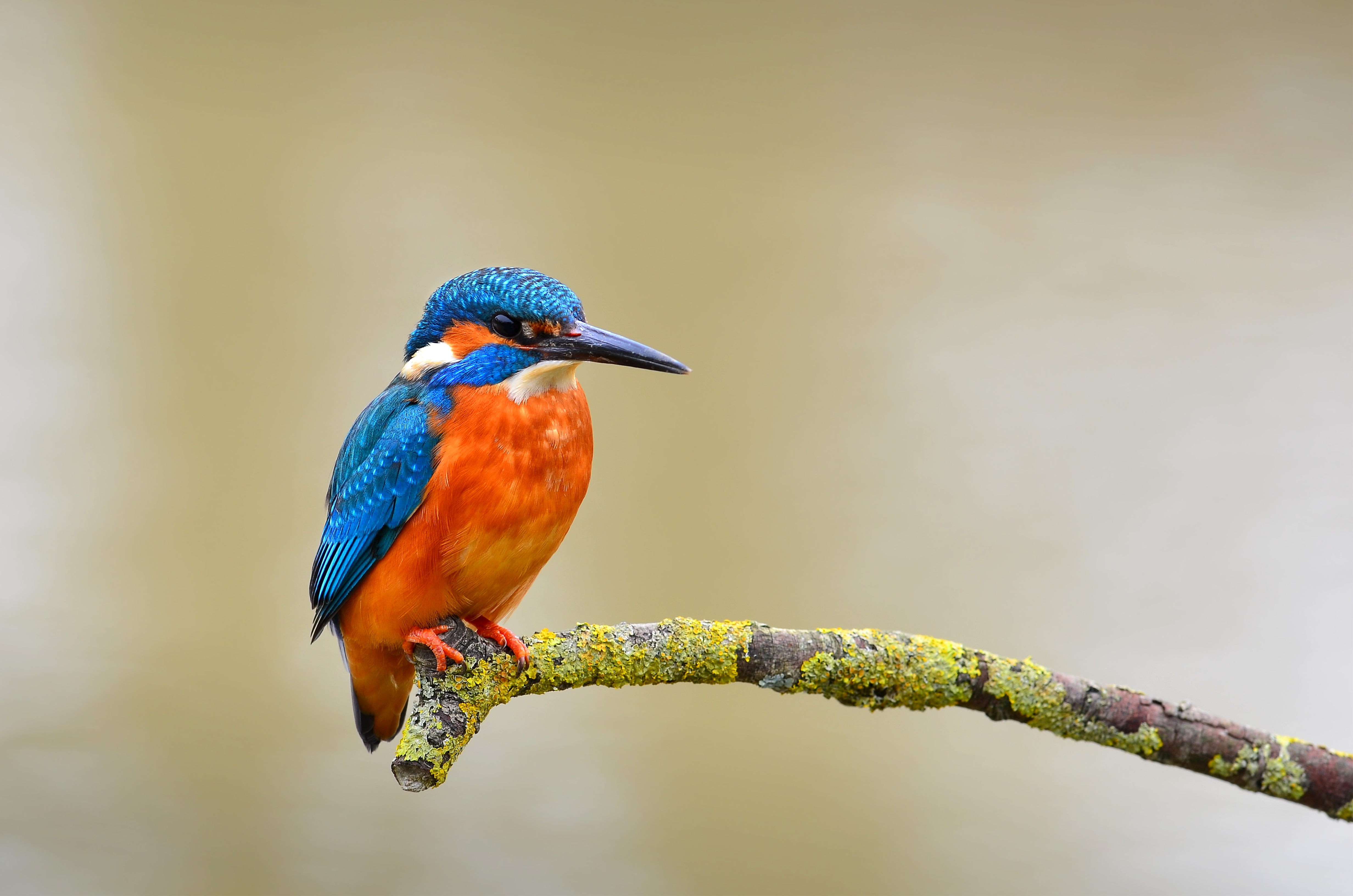 Common kingfisher closeup